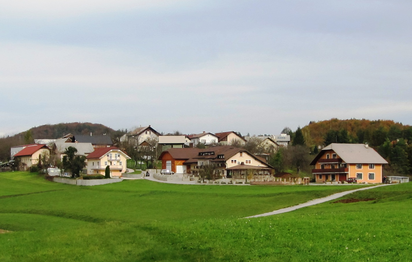 Village of Pance, City Municipality of Ljubljana, Slovenia